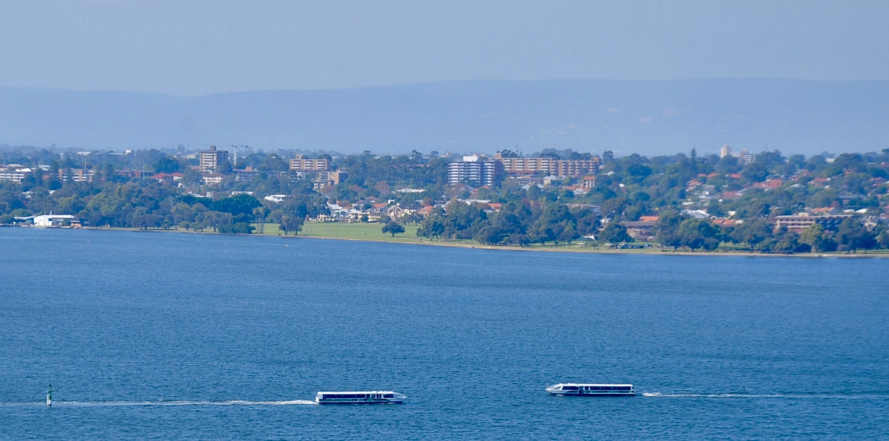 Transperth ferries meet on Perth Water, May 2018. Photograph taken from Kings Park